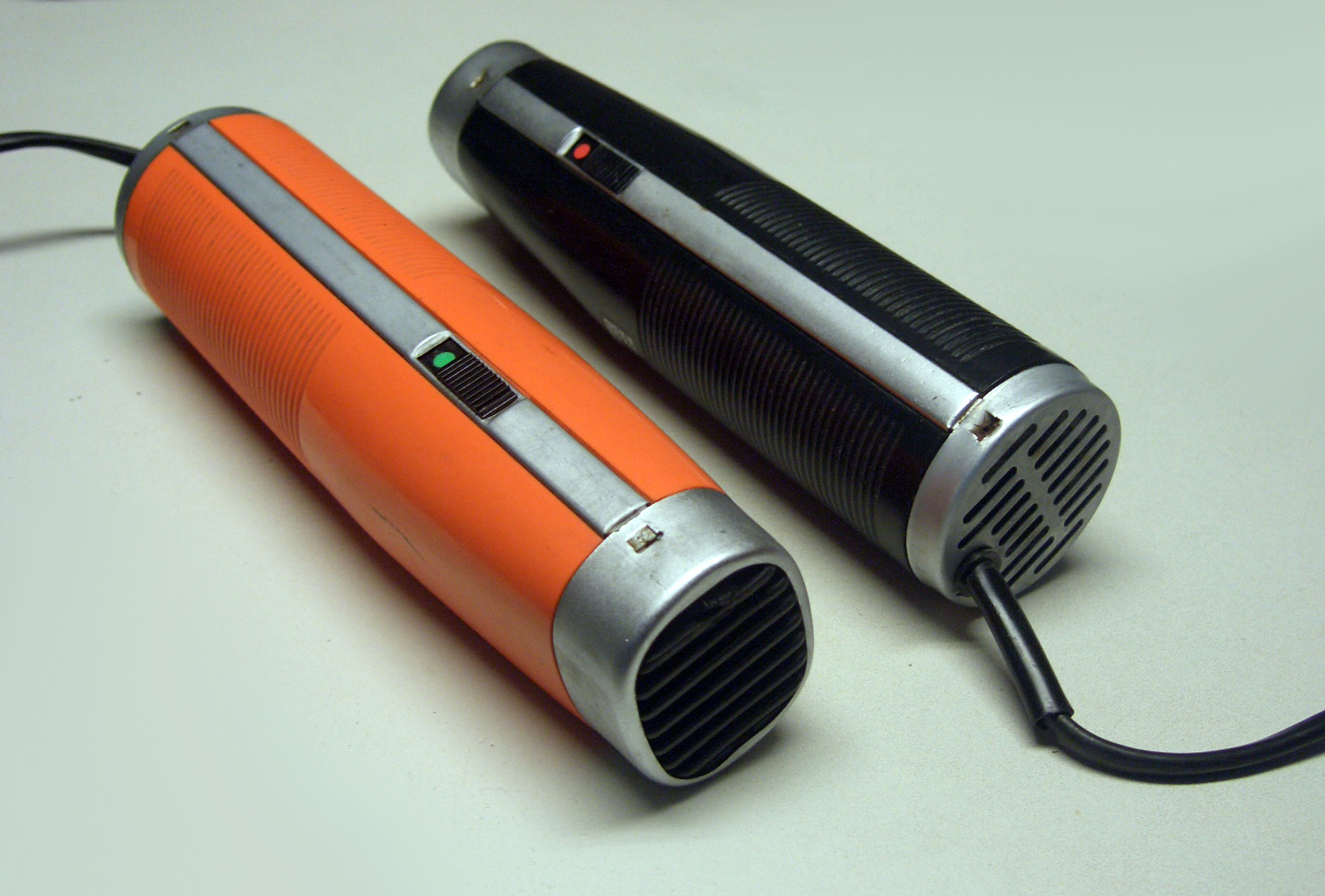 AKA electric